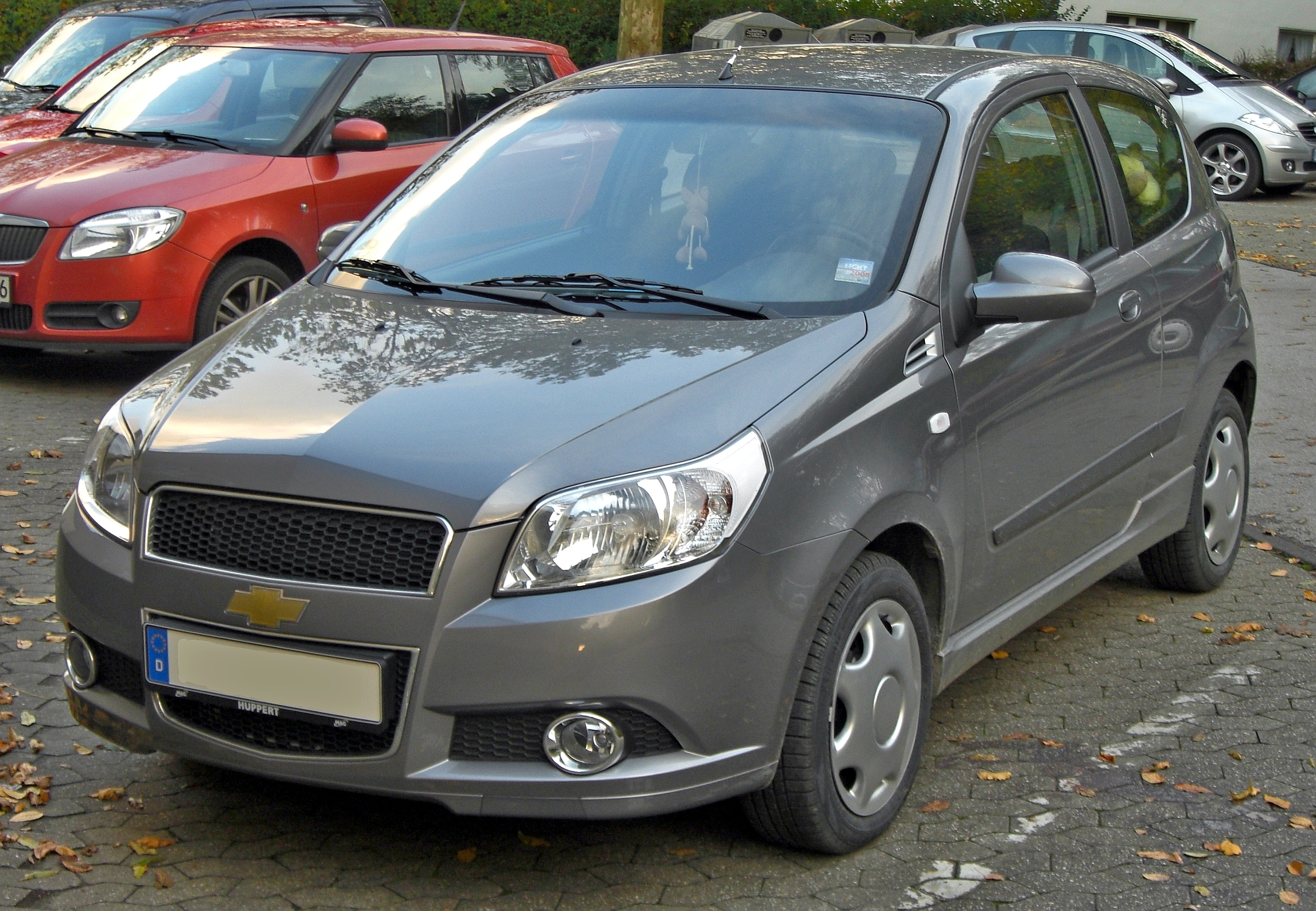 Description: Chevrolet Aveo Dreitürer Source: Matthias Other Version(s)